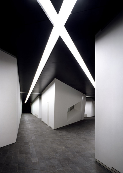 The intersection of tunnels beneath the Jewish Museum Berlin, designed by architect Daniel Libeskind.